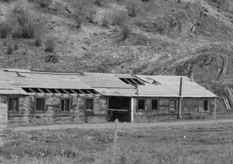 This image was taken by myself c.1991 and is of the old 12 Mile Road House at Fountain, which is no longer extant but stood by the side of what is now Hwy 99, which follows the route of the Old Cariboo Road from Lillooet to Pavilion. The roadhouse had once been a combination stable and hostelry for travellers on the route, which at Fountain met the main wagon road and trail from Lytton and the lower Fraser Canyon and Yale (in those days the route via the Big Slide on Highway 12 was not usable). I am hereby donating this image to Wikipedia.